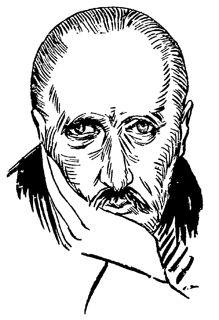 Head portrait drawing of 1915 literature Nobel Prize winner Romain Rolland